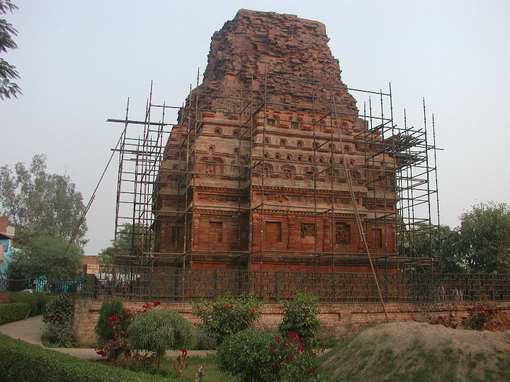 Built in the 6th century during the Gupta Empire, it is the oldest remaining Hindu shrine.